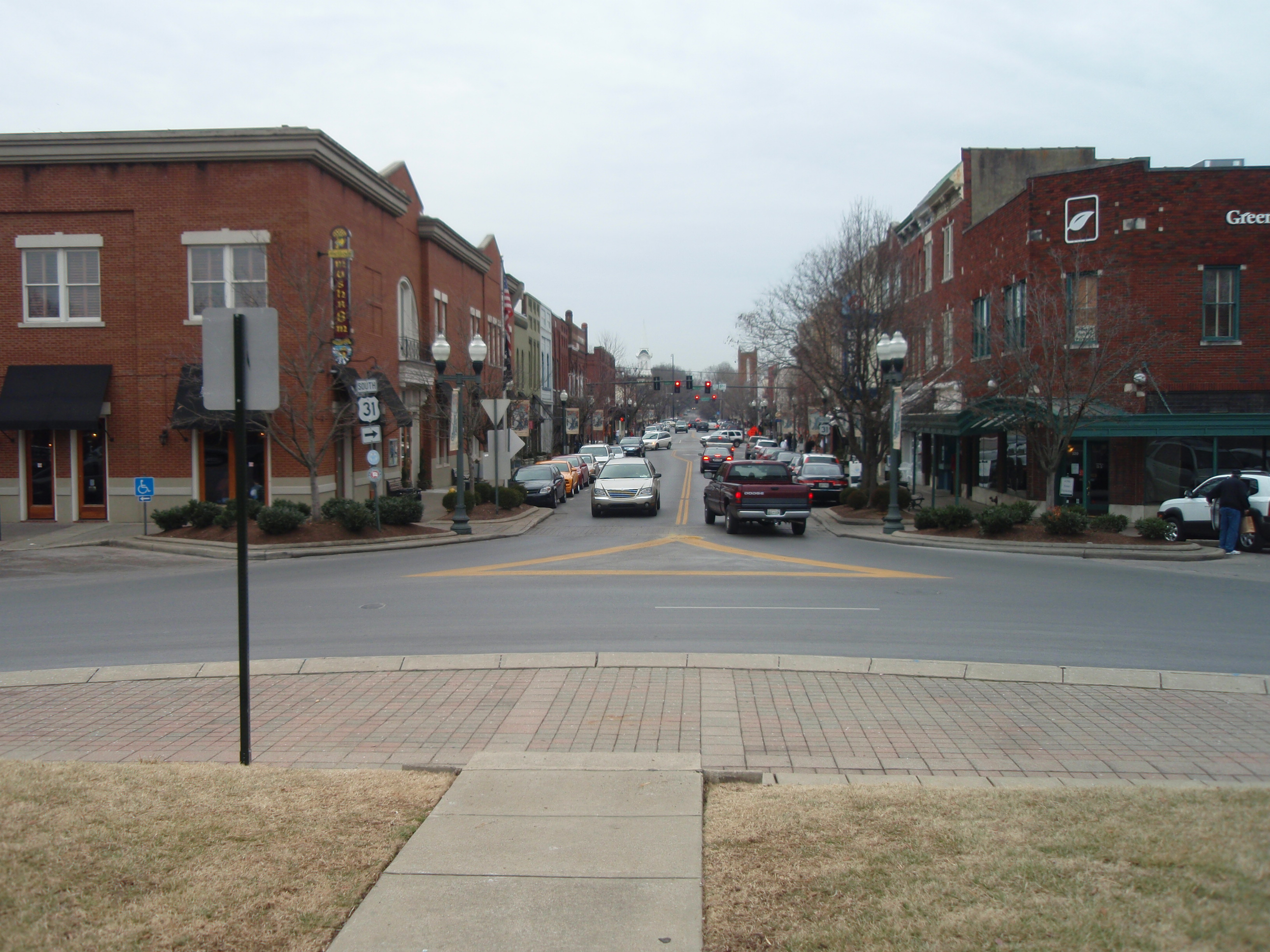 Franklin Historic District